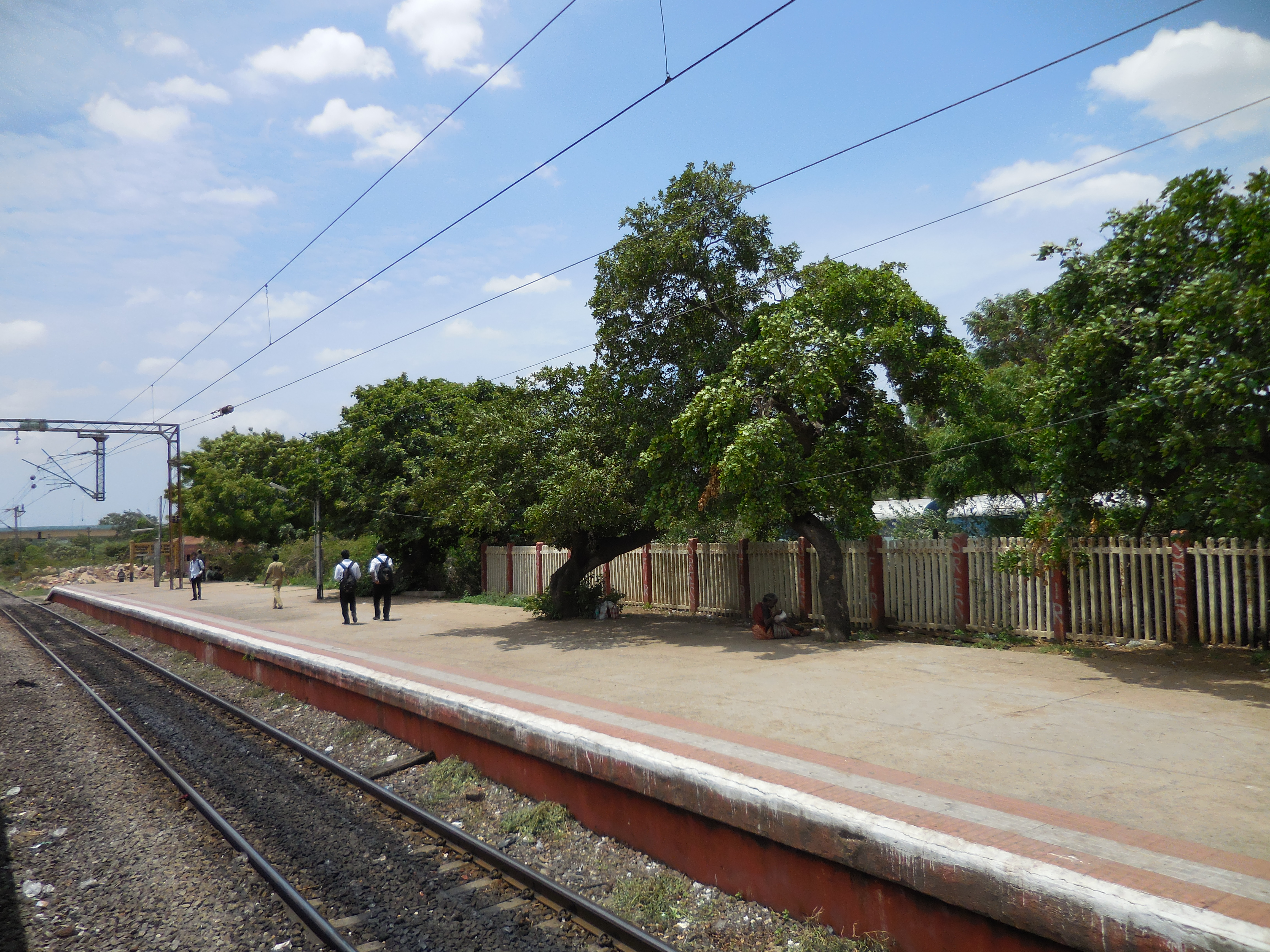 Perambur Carriage Works railway station, Chennai, view towards east, taken on 15 July 2014 at noon.